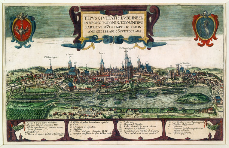 Hogenberg and Braun - Lublin in 1618.